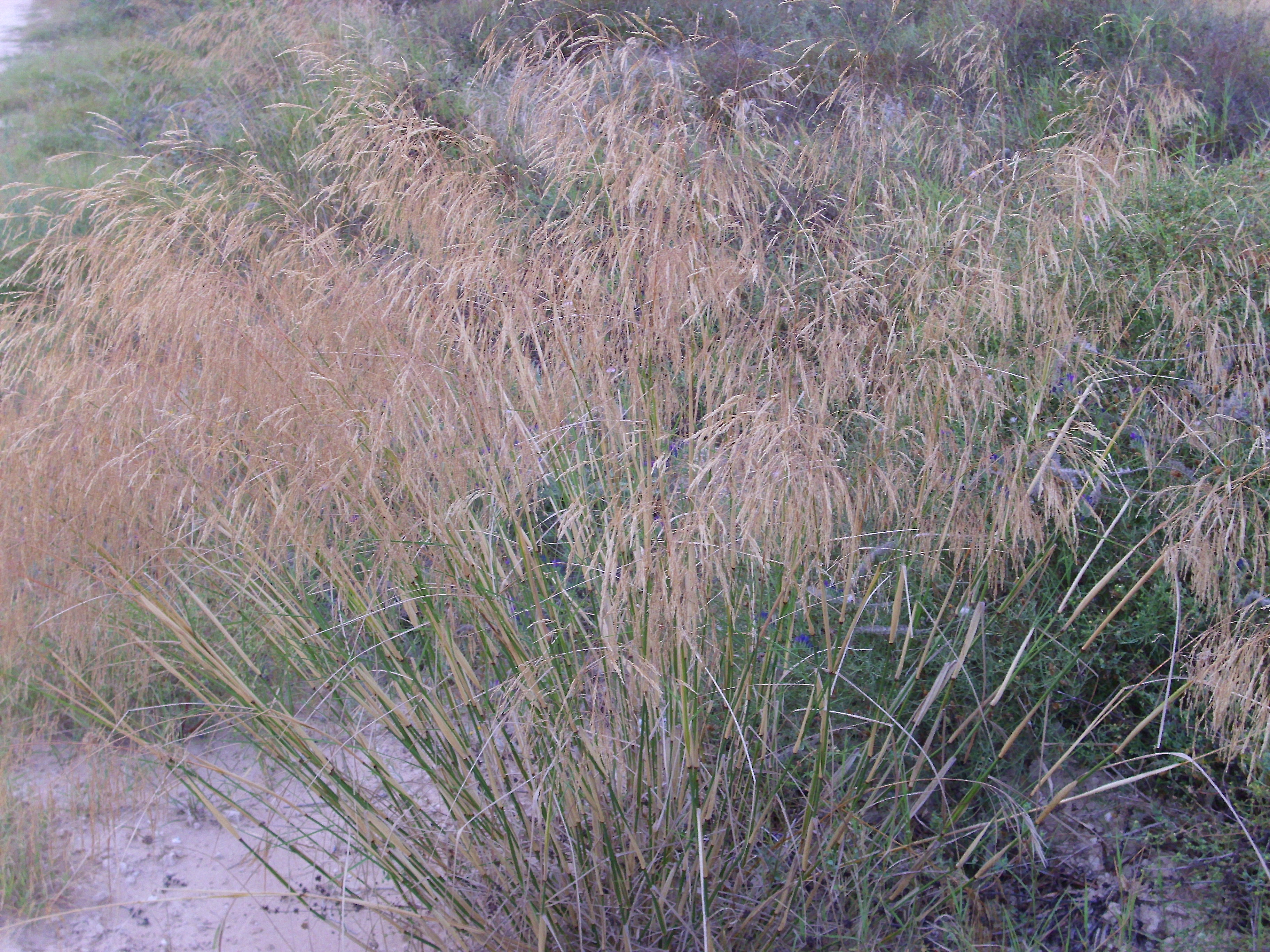 Piptatherum miliaceum habit, La Mata, Torrevieja, Alicante, Spain.